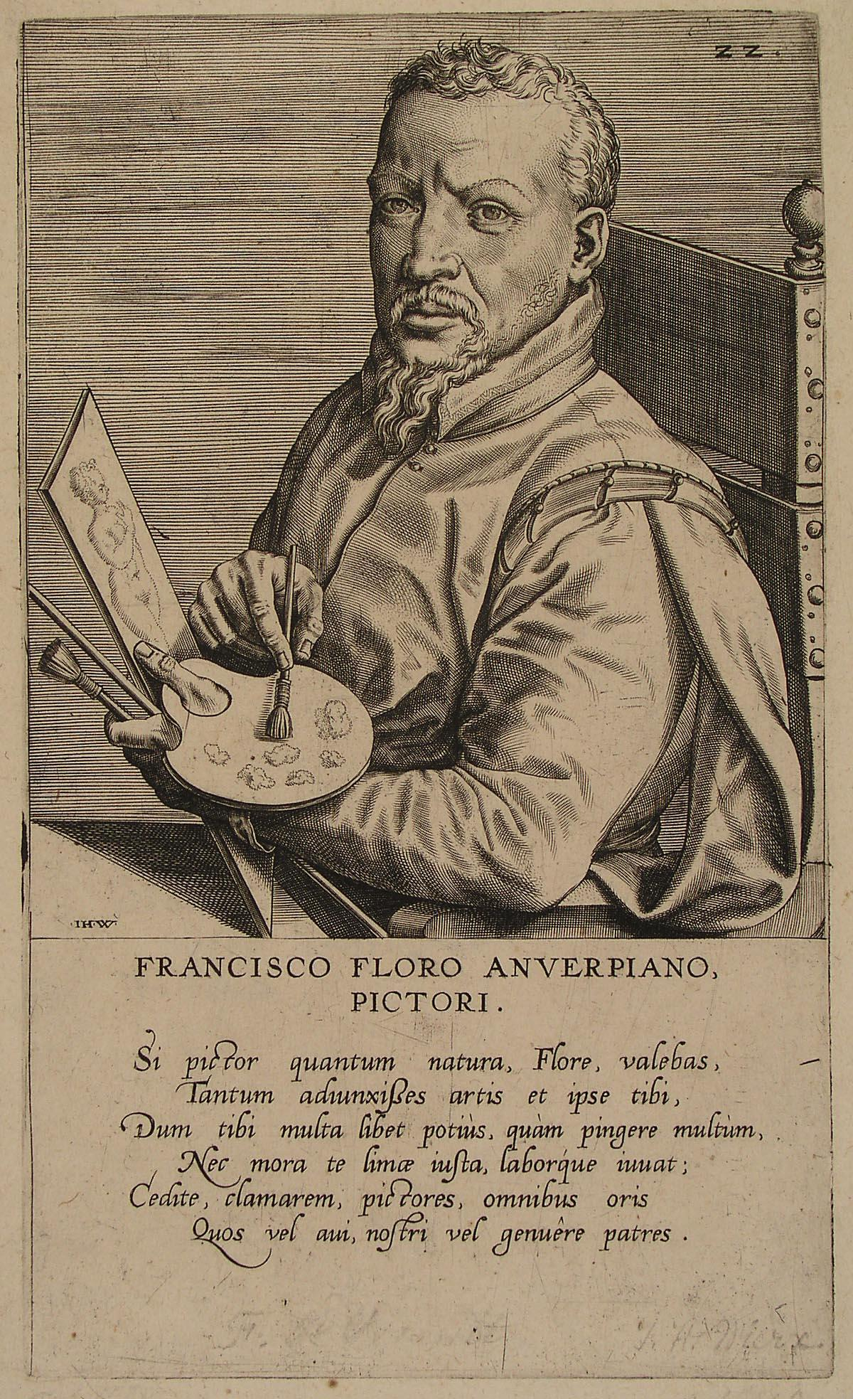 portrait of painter Frans Floris de Vriendt, engraving